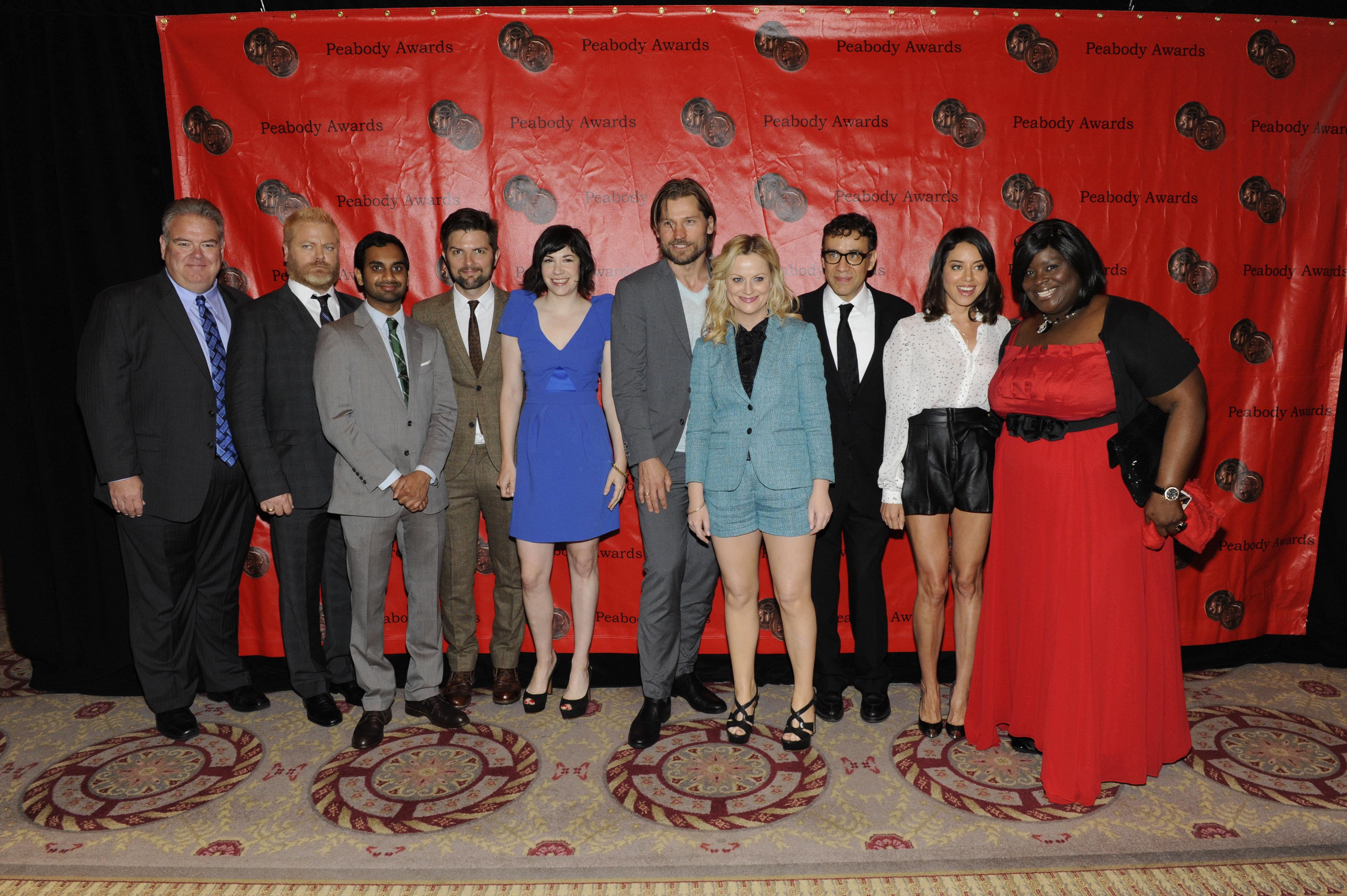 PHOTO CREDIT: ANDERS KRUSBERG / PEABODY AWARDS Jim O'Heir, Nick Offerman, Aziz Ansari, Adam Scott, Carrie Brownstein, Nikolaj Coster-Waldau, Amy Poehler, Fred Armisen, Aubrey Plaza and Retta. 71st Annual Peabody Awards Luncheon Waldorf=Astoria Hotel May 21, 2012